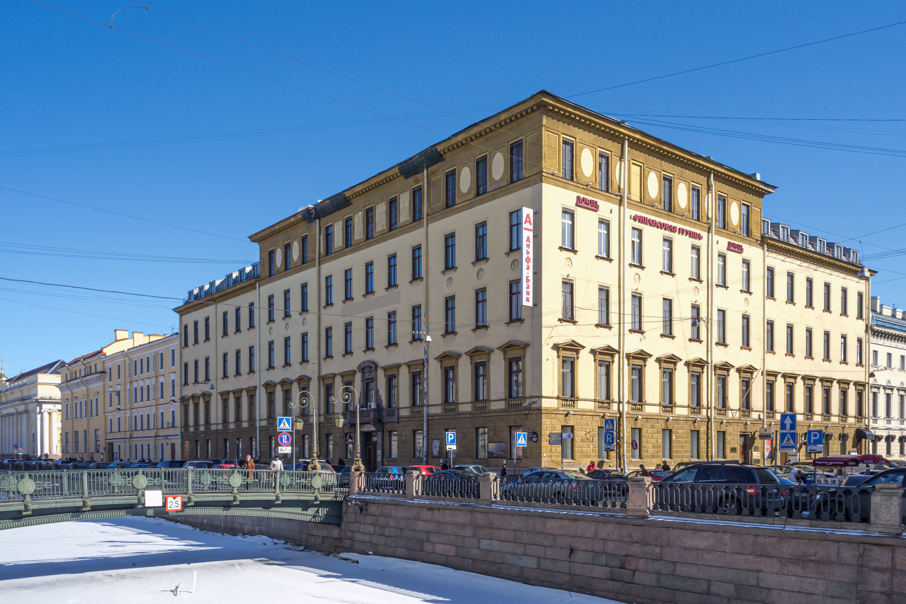 2, Italianskaya Street in Saint Petersburg.